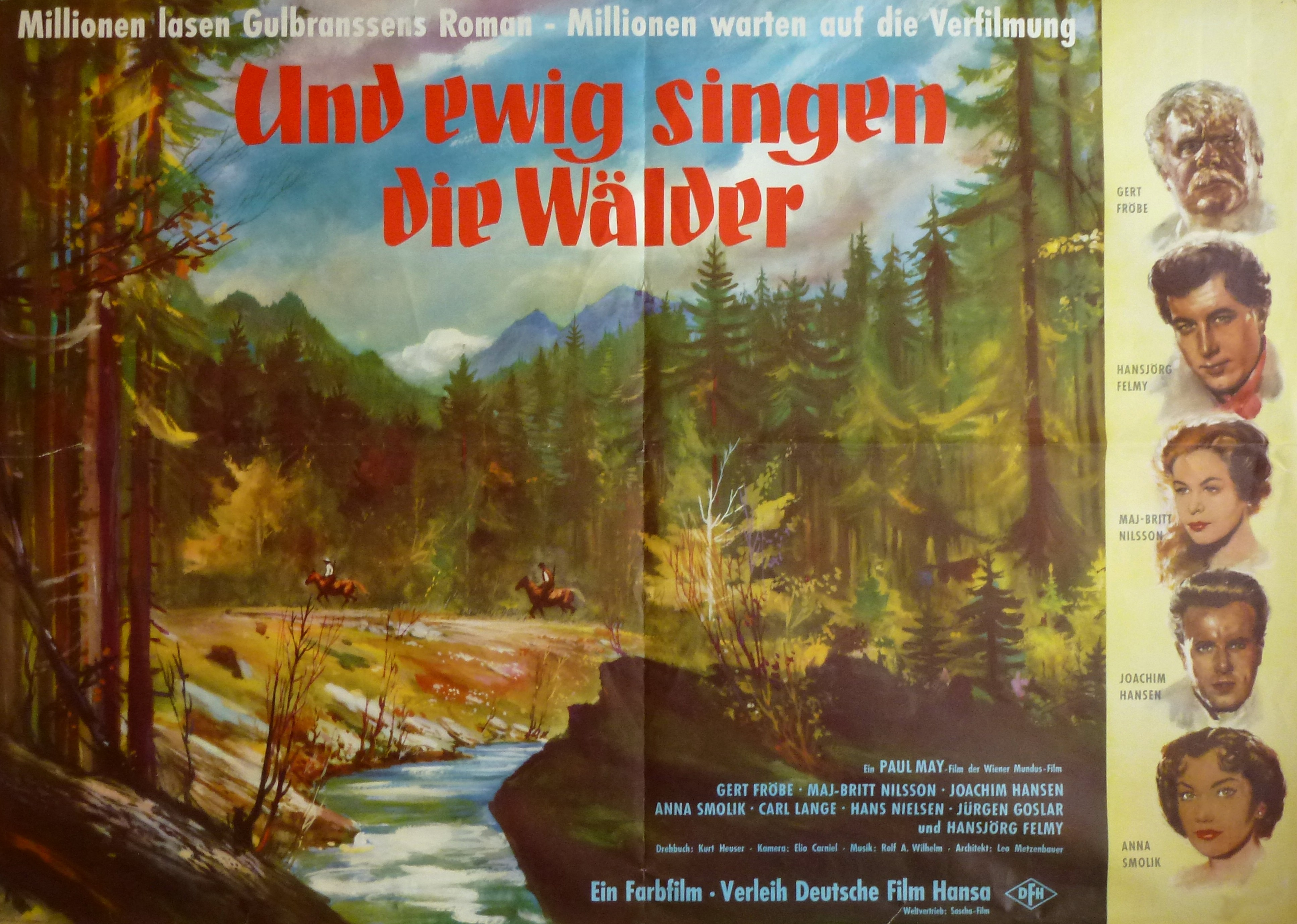 Filmposter from the 1959 film "Und ewig singen die Wälder" based upon the books by Trygve Gulbranssen.